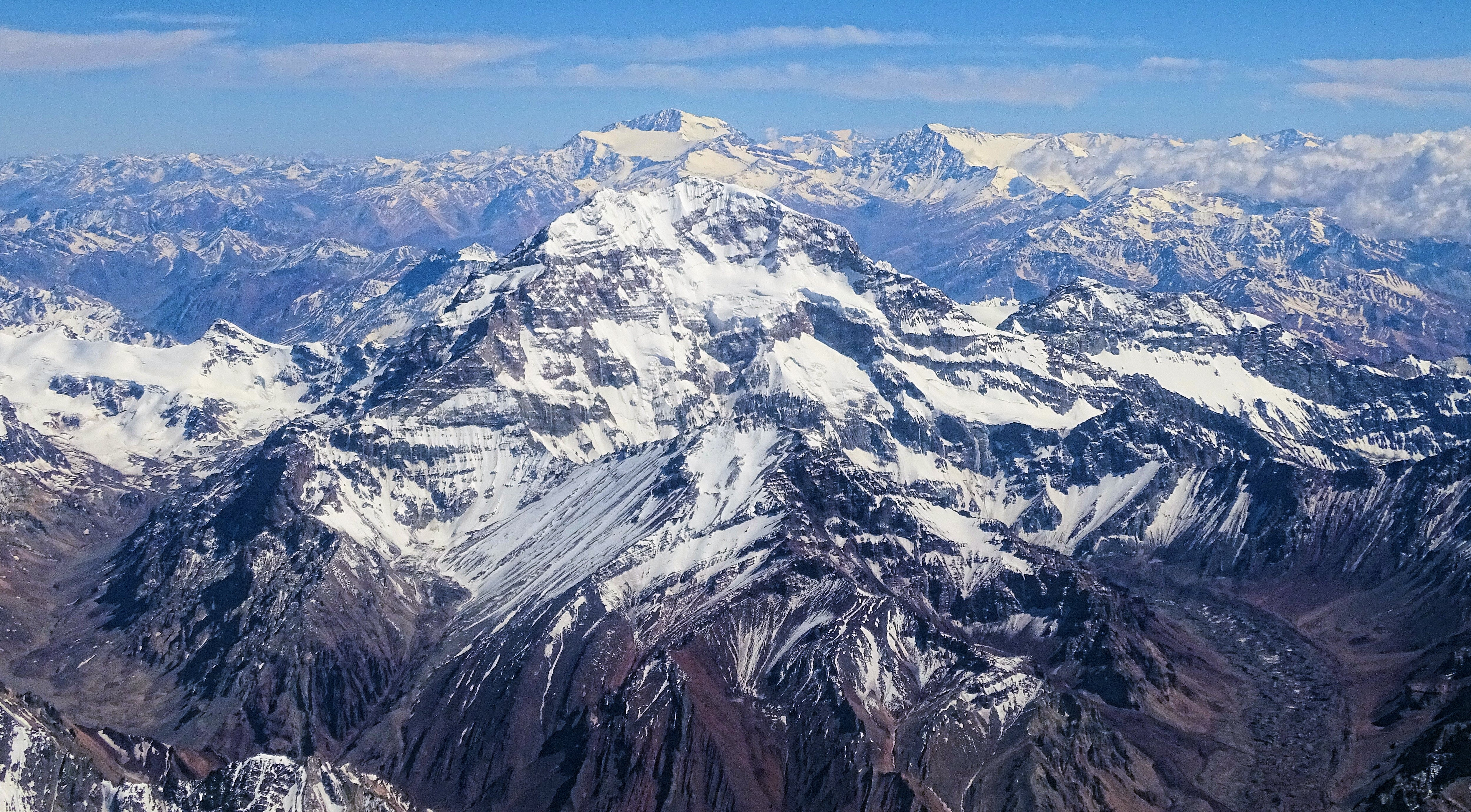 Aconcagua seen from a commercial flight between Buenos Aires, Argentina, and Santiago de Chile in December 2016. In the background we also see the mountain Mercedario.